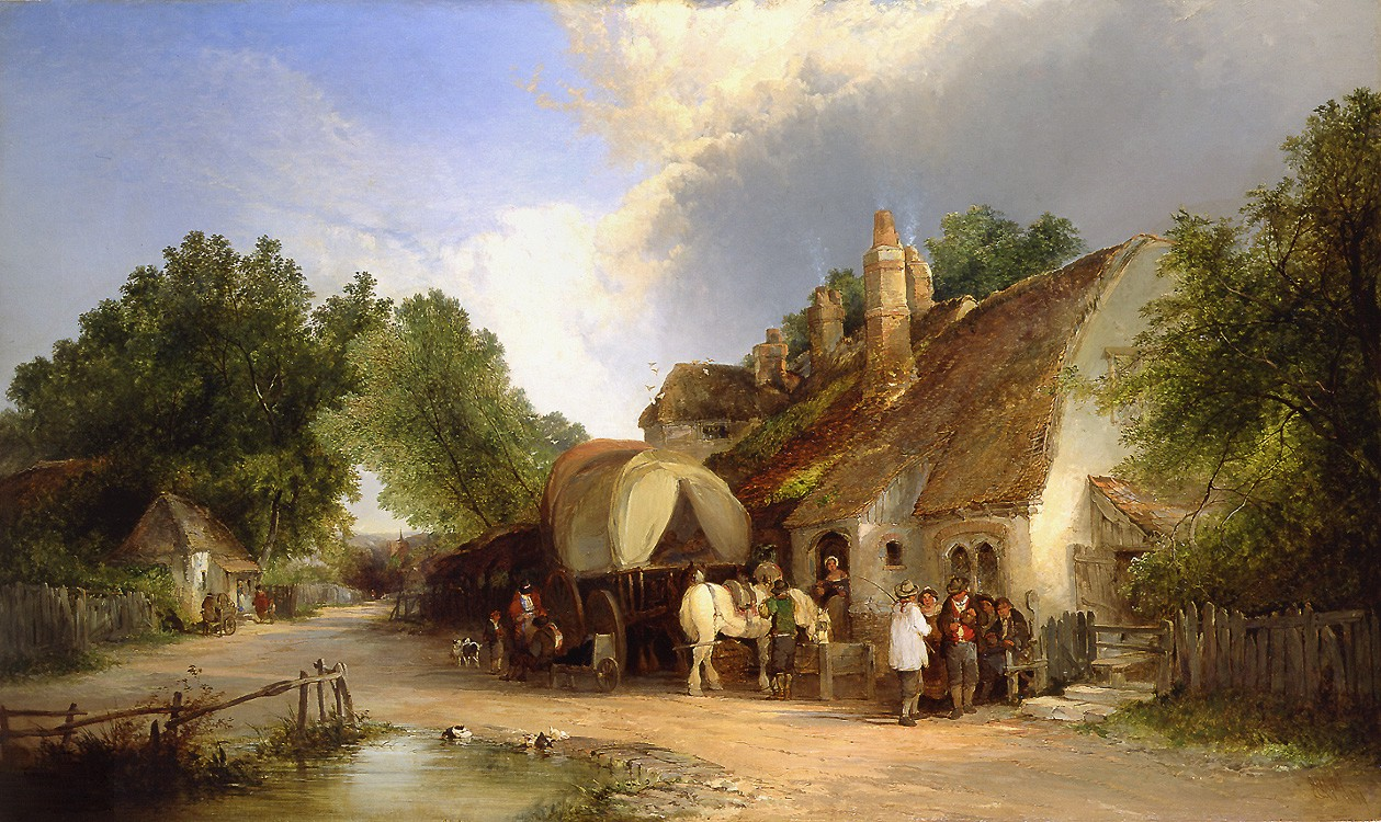 The Old Roadside Inn